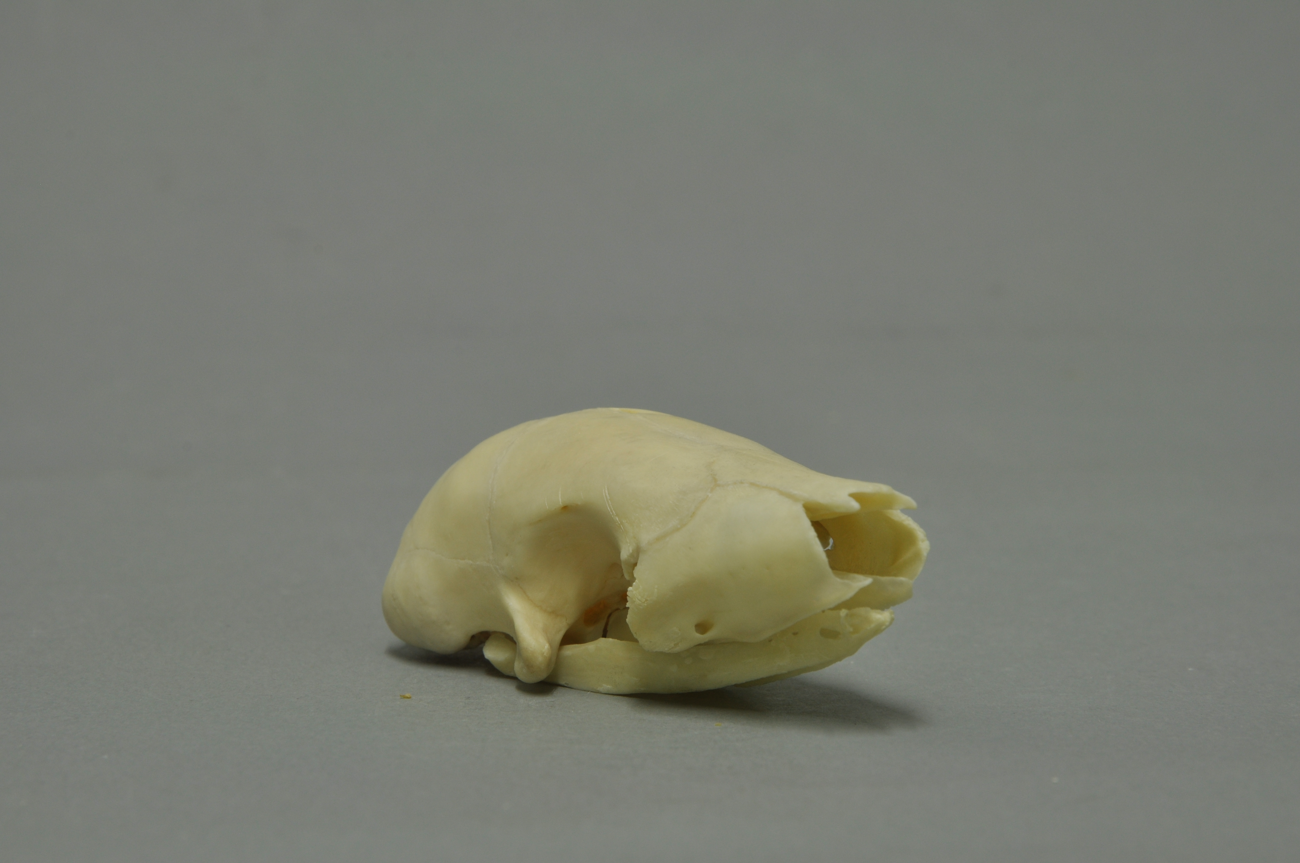 Tree pangolin Manis tricuspis , skull, Coll. Museum Wiesbaden